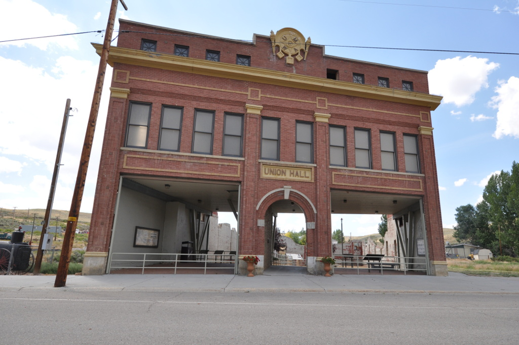 South Superior Union Hall, Superior, Wyoming.